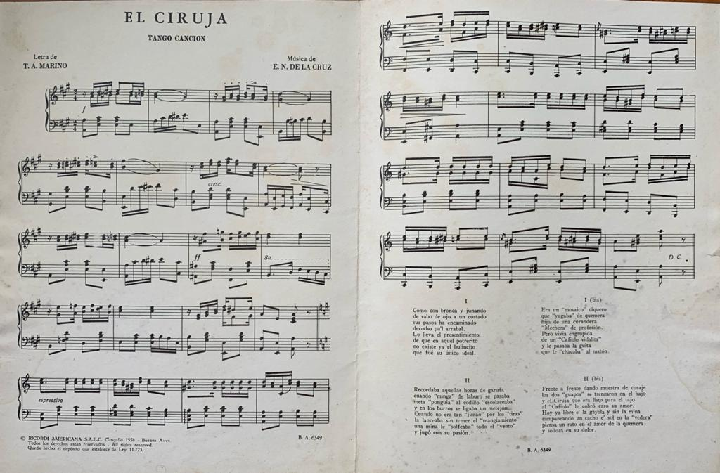 Sheet music of the Argentine tango 'El Ciruja'; music by Ernesto de la Cruz, lyrics by Alfredo Marino.